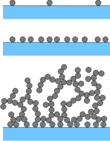 Deposition Scheme1